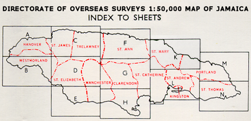 An index to the 1:50,000 maps of Jamaica published by the UK Directorate of Overseas Surveys from the early 1950s onwards. The index is taken from the footer of one of the maps it indexes.